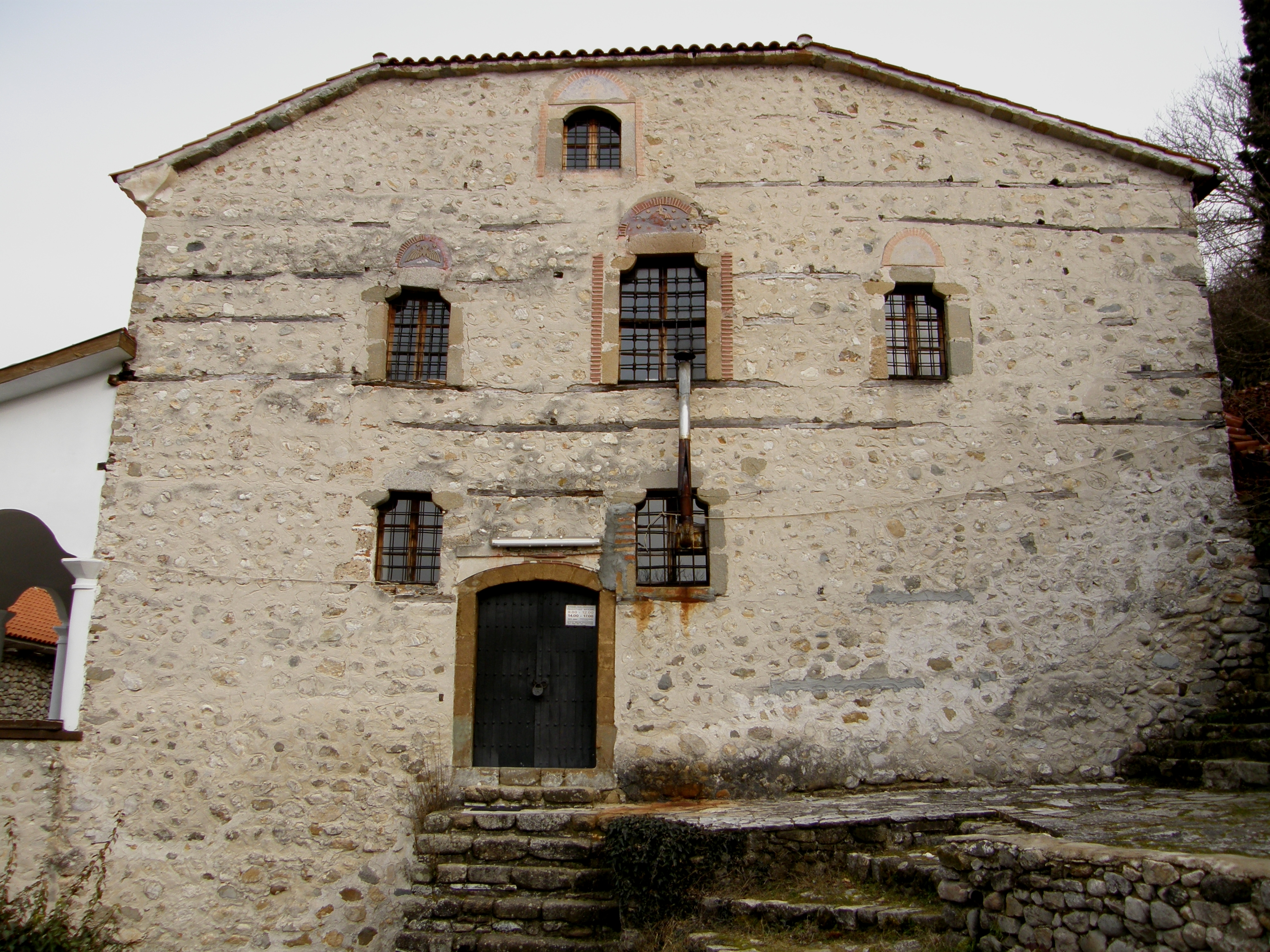 The metropolitan church of St. Nicolas the Wonder-worker in Melnik, Bulgaria... Saint Nicolas the Wonder-worker, Melnik, Bulgaria...